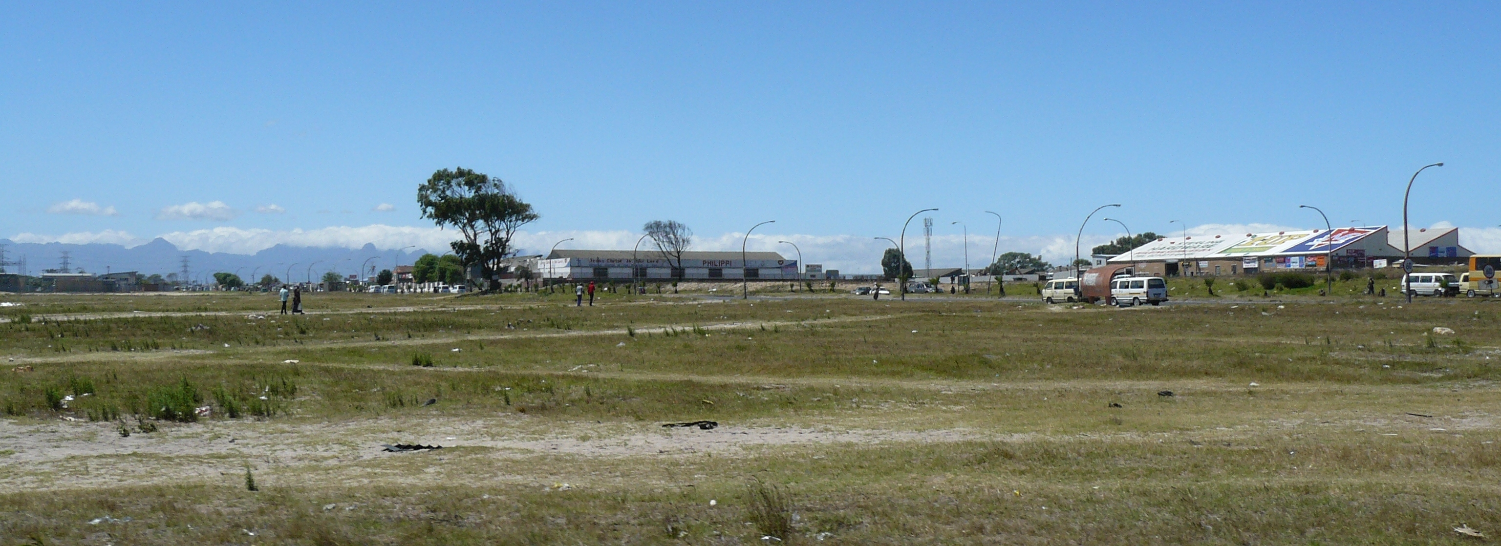 Philipi Township, Western Cape